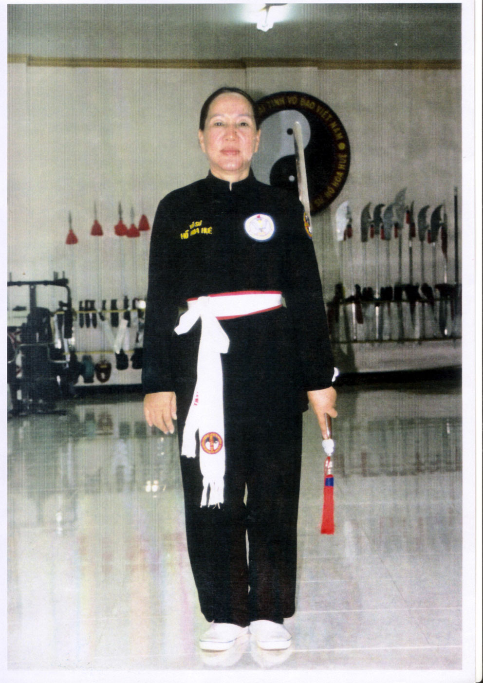 Master Hoa-Hué